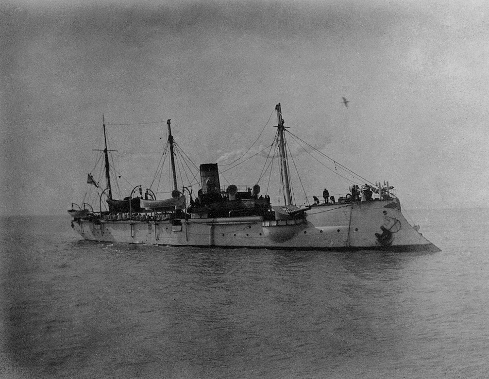 Imperial Russian gunboat Koreets, February.